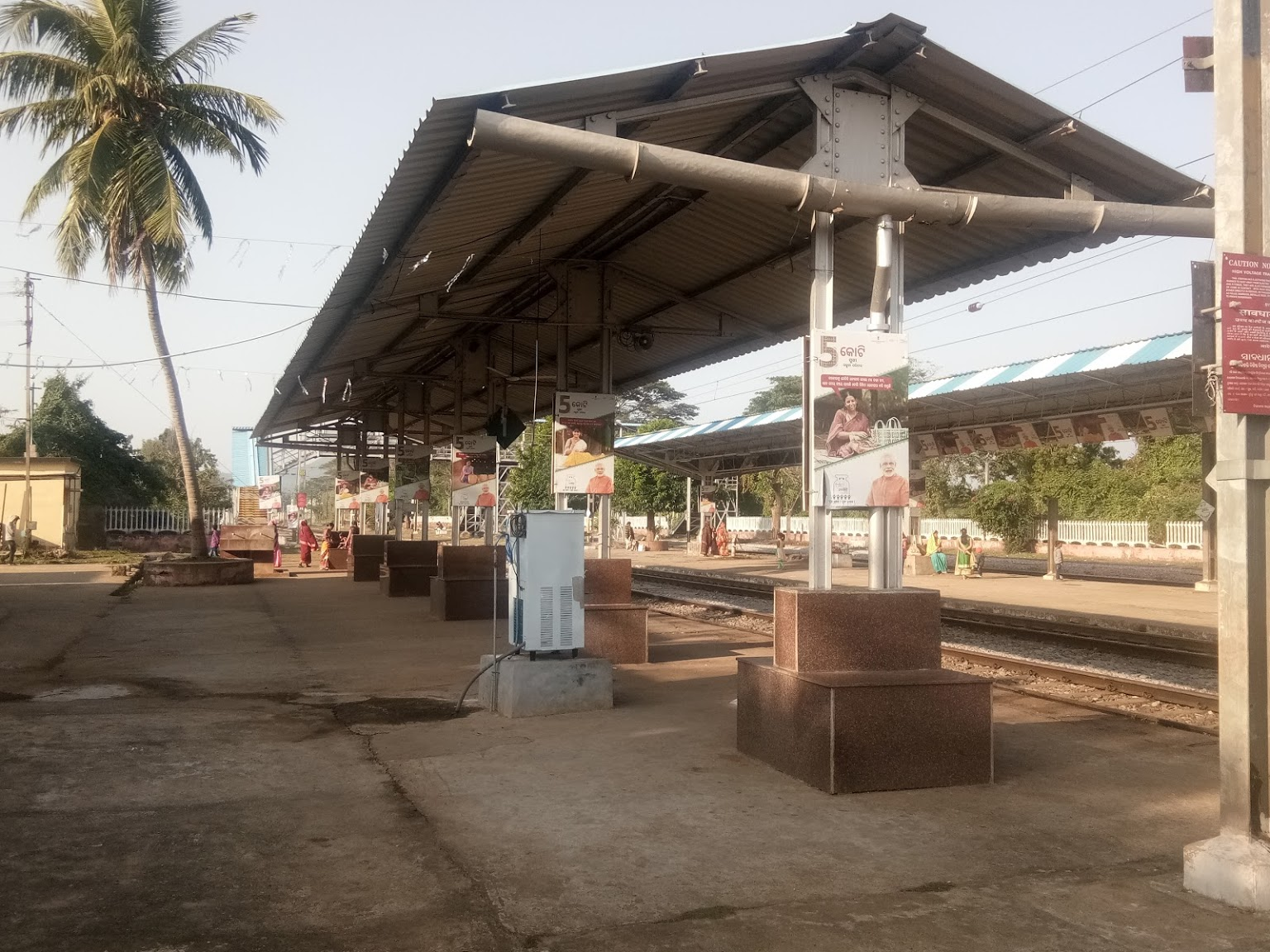 This is the Picture of Rambha railway station